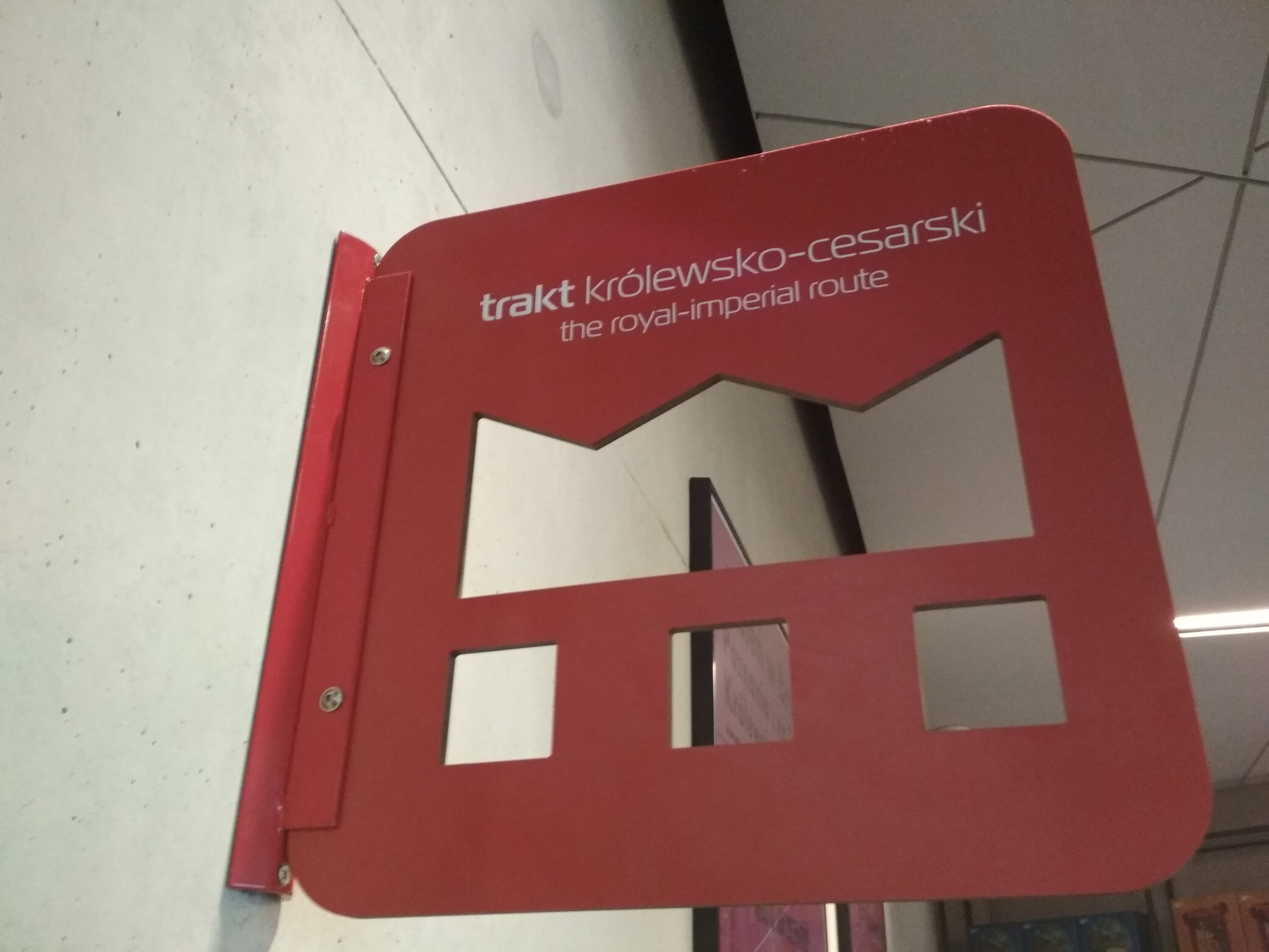 A sign of Royal Imperial Route in Poznań